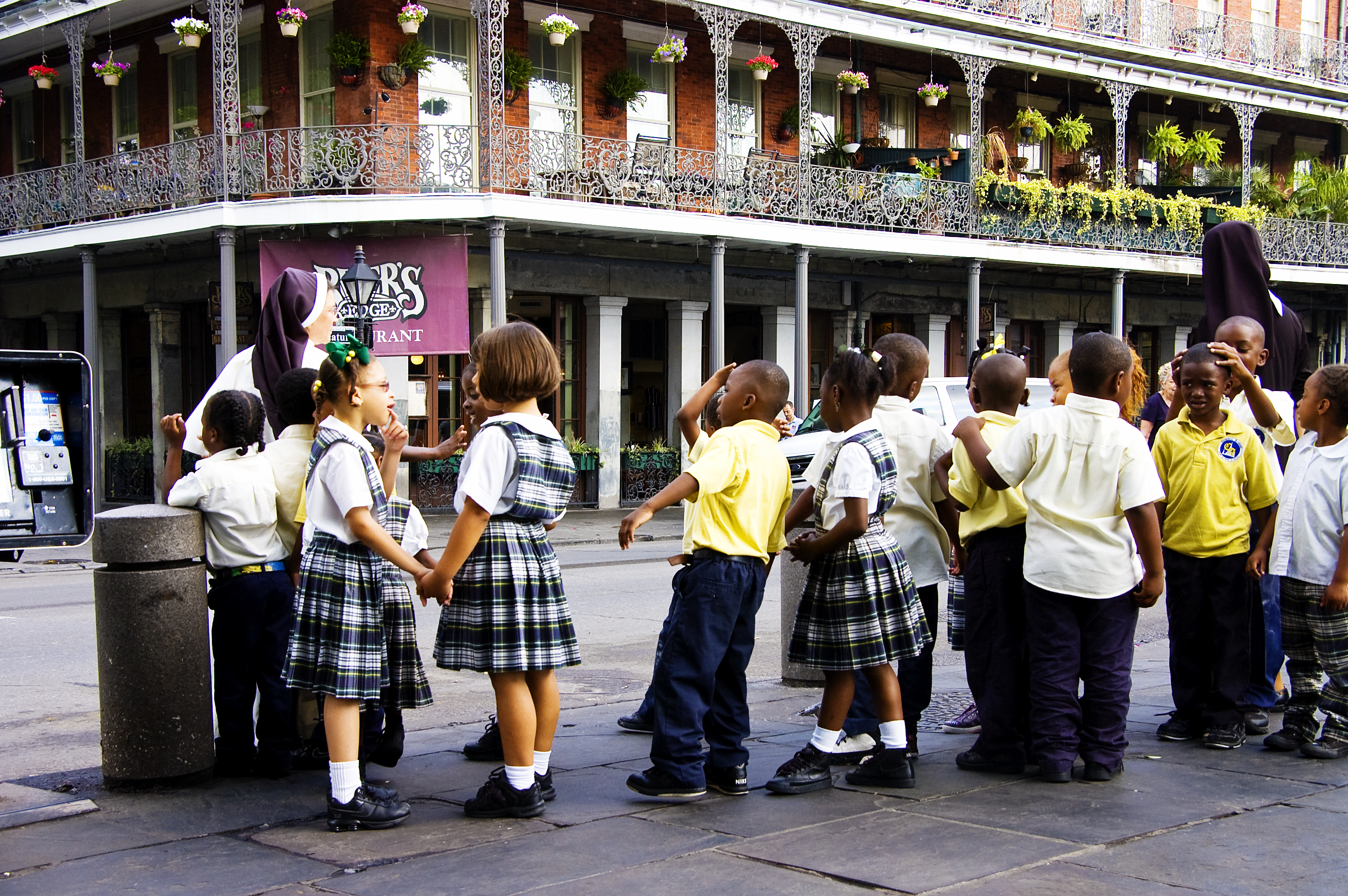 French Quarter of New Orleans